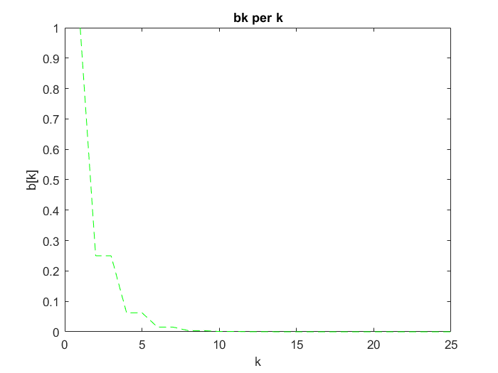 Bk_converganceRate